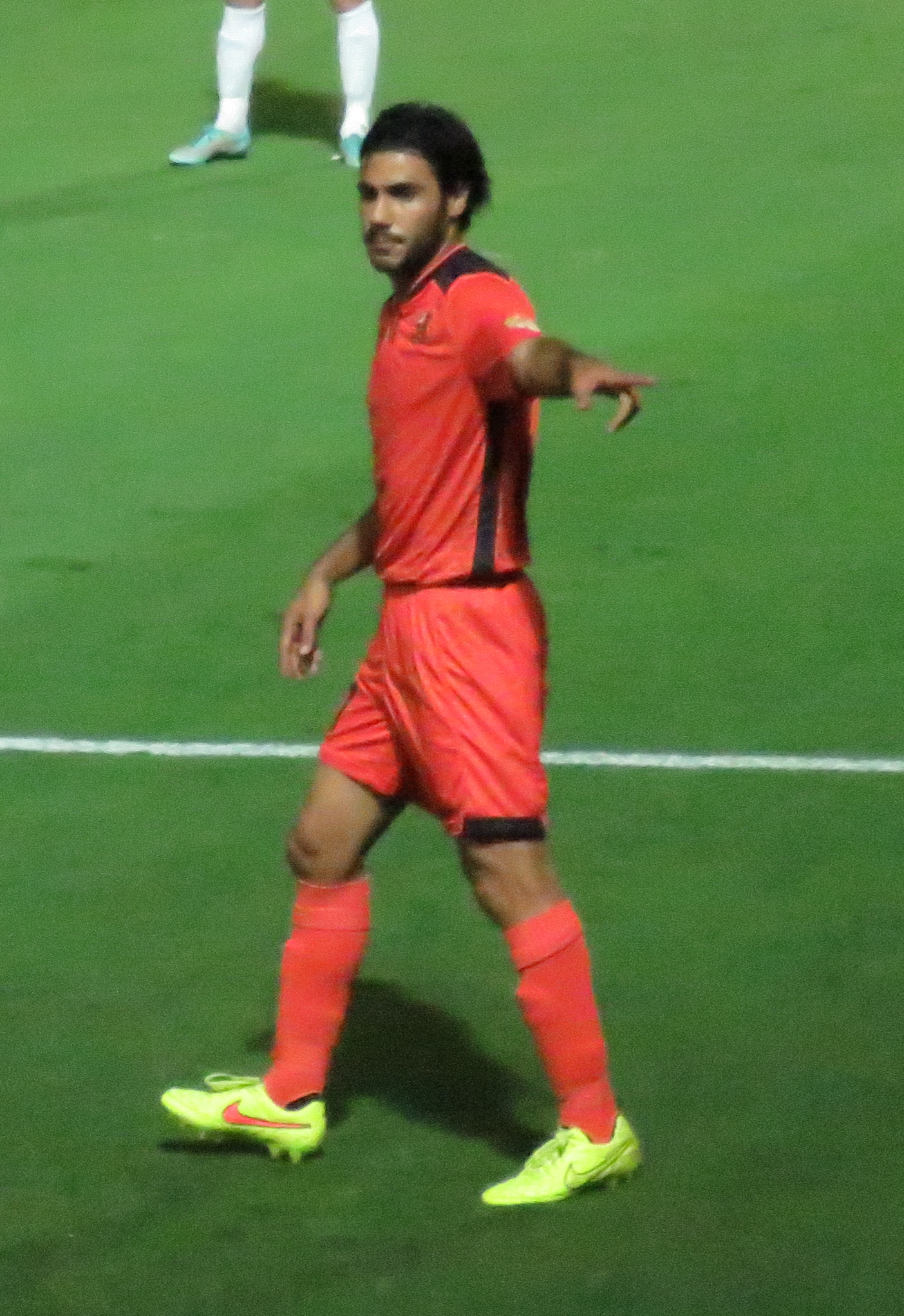 Bnei Yehuda Tel Aviv vs. Hapoel Acre - August 31, 2015